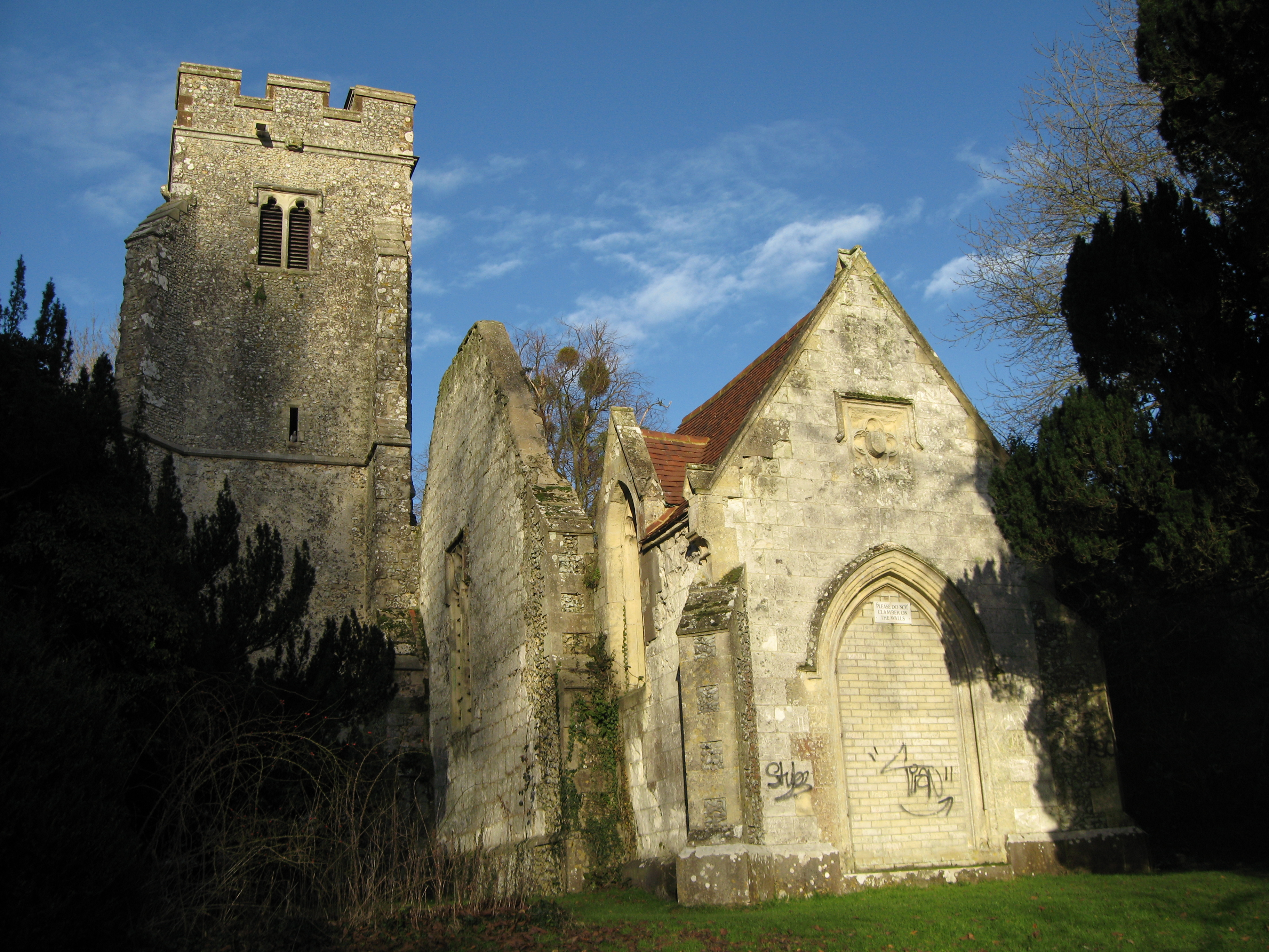 West tower and mortuary chapel of the ruined parish church of St Mary, Eastwell, Kent